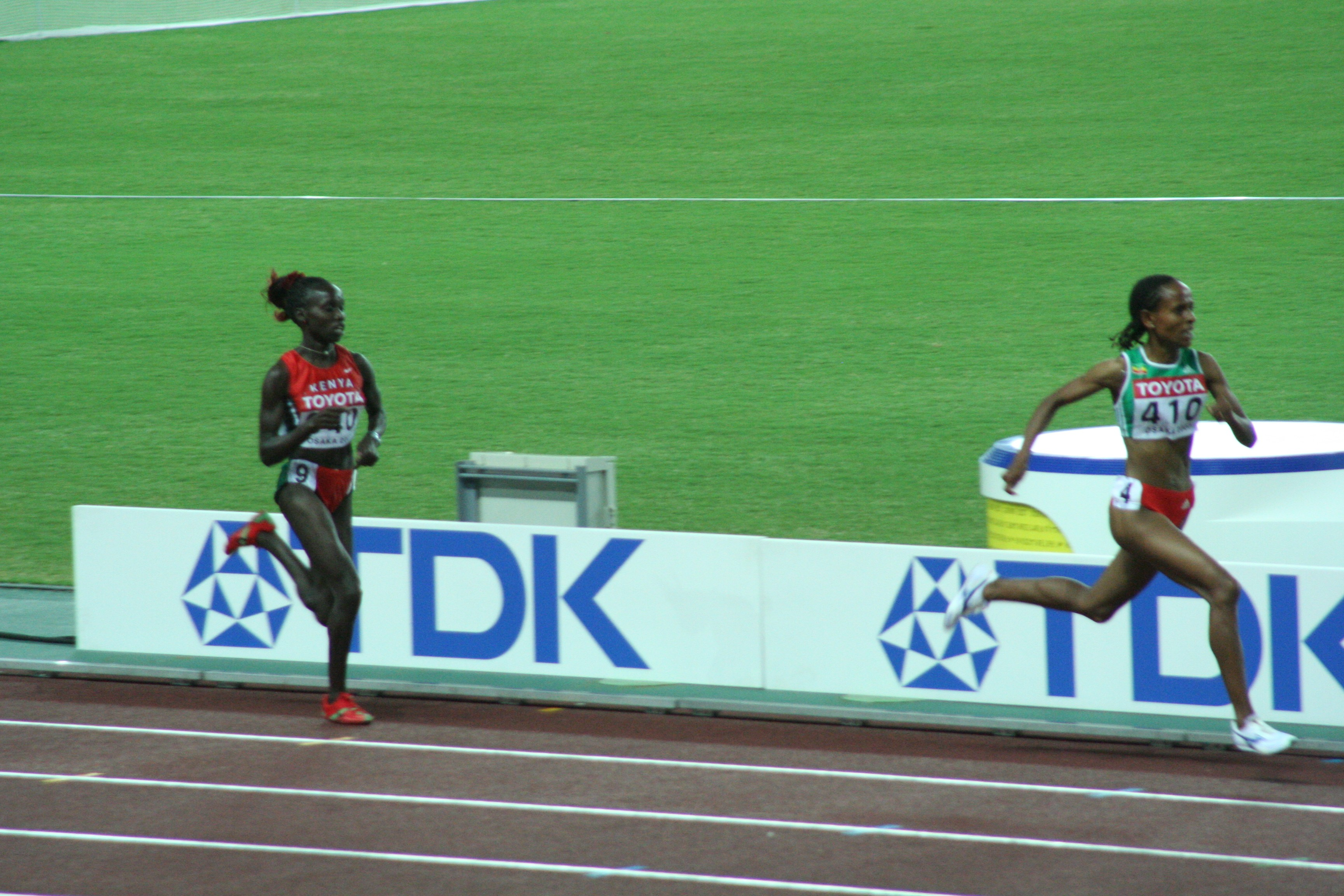 World Athletics Championships 2007 in Osaka - Final sprint in the women*s 5000 metres final, Vivian Cheruiyot, Meseret Defar